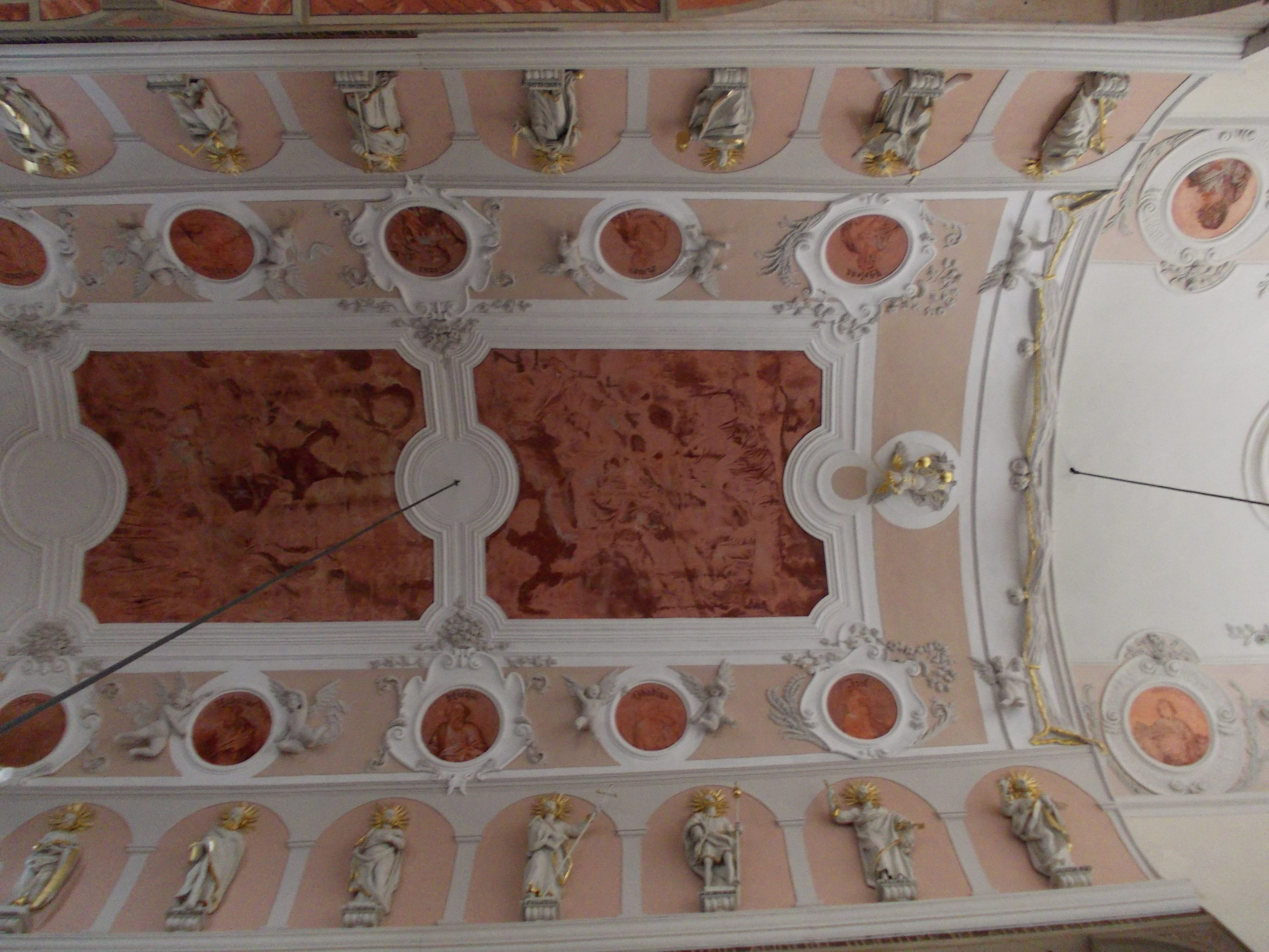 St. Michael, the main church of the town of Buttstädt (Sömmerda district, Thuringia)